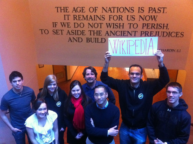 Newly minted DC-area Wikipedia campus ambassadors at Georgetown University.